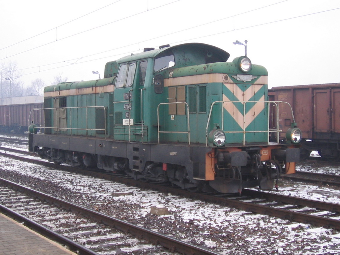 SM42-292 at Bochnia